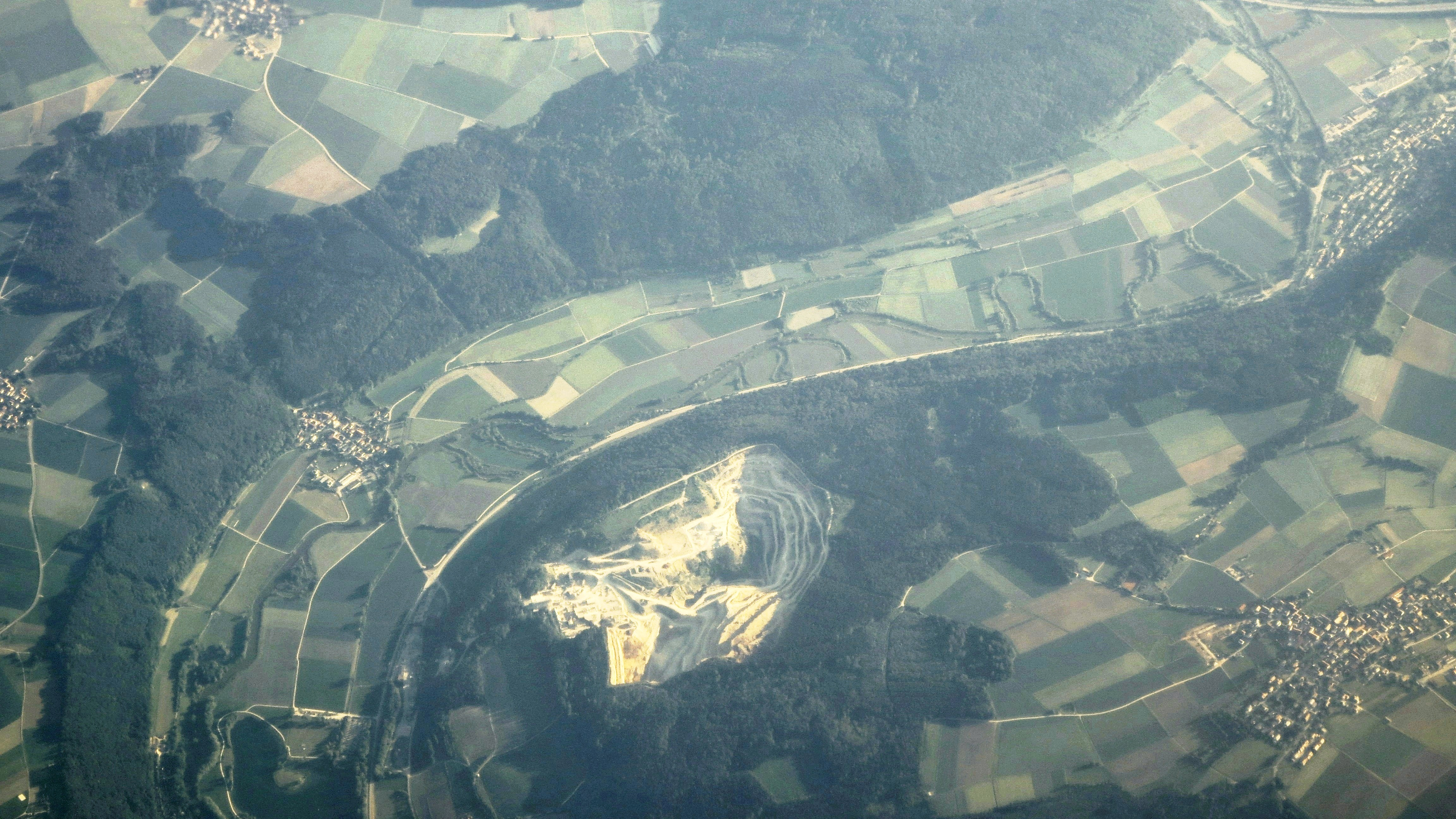 Aerial view from the north towards sotuh, of the Geiger Stoneworks by the Altmühl river, in the city of Kinding, Bavaria (Bayern) - Germany.